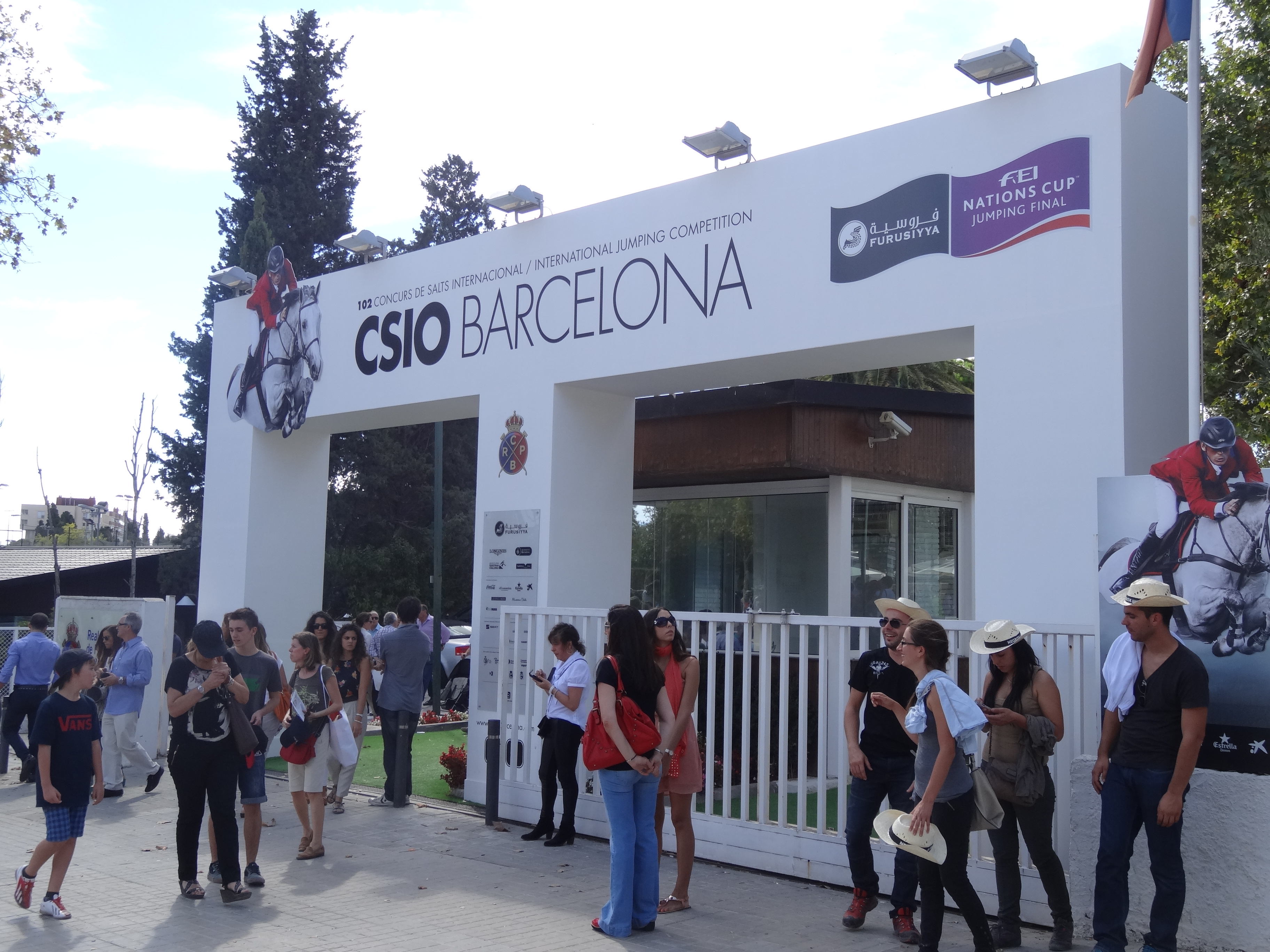 CSIO Barcelona 2013 show jumping event